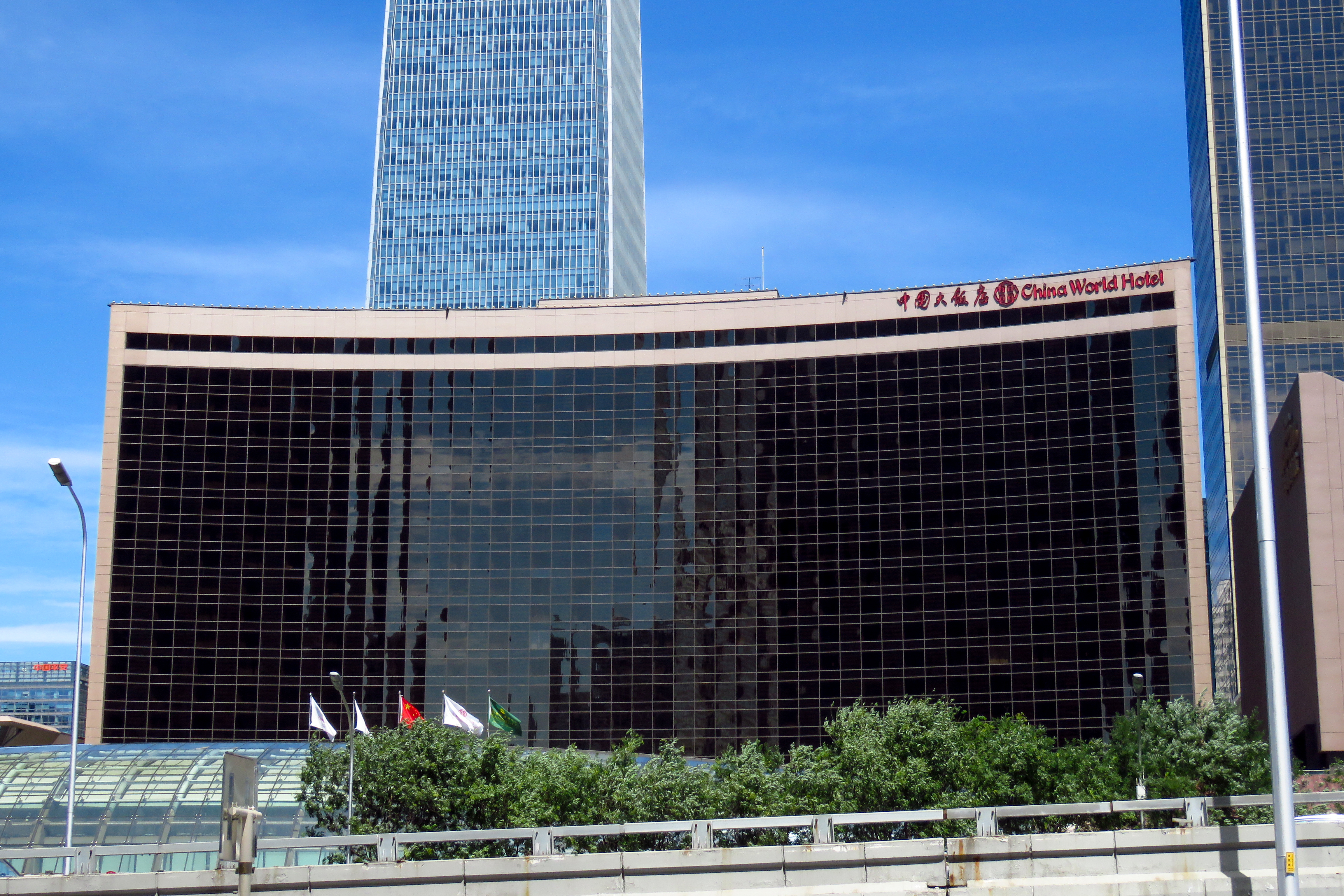 CAVOK in Beijing at Chushu (end of summer).